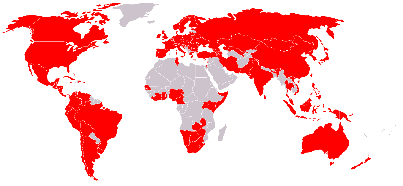 A map of the members of the International Softball Federation. Based partially on Image:BlankMap-World.png, which was created by User:Vardion. I, Miss Madeline, release this into the public domain.